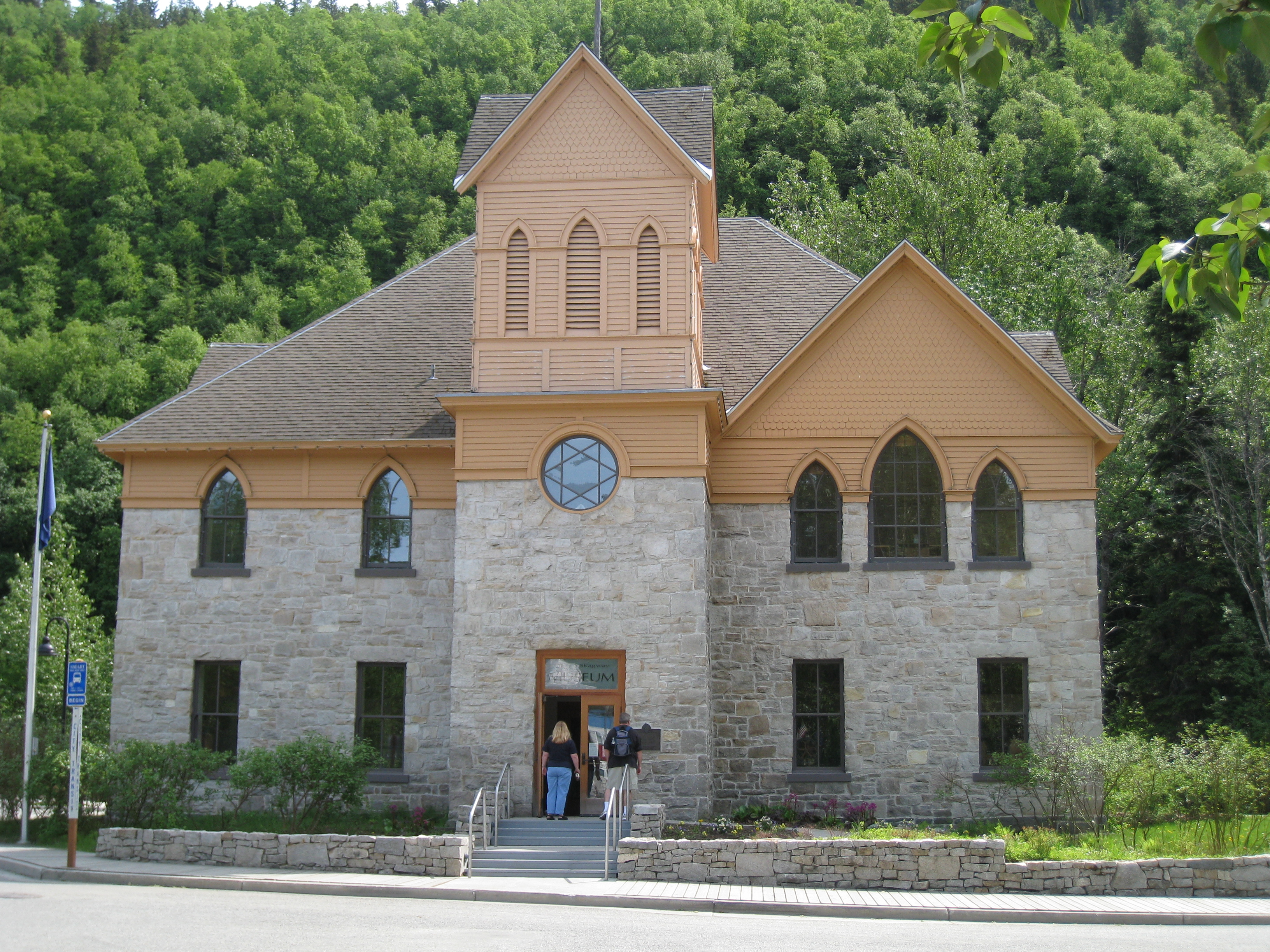 Museum in Skagway. It began life as a short-lived gold-rush-era college and later became a federal courthouse and jail. The city hall and museum have occupied the building since 1961 except for a brief hiatus for renovations. Read more